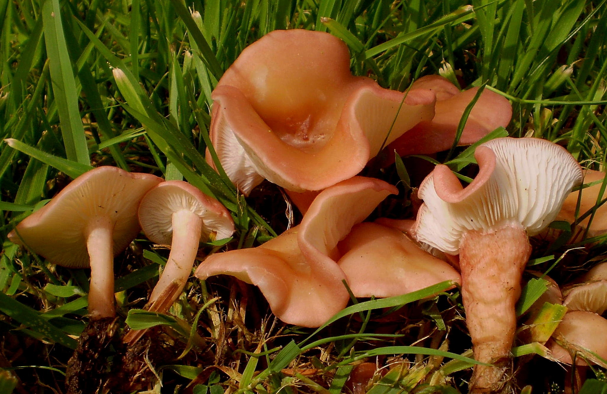 The source of this image is the photographer Frank Gardiner aka Zonda Grattus, who is the sole owner and copyright holder of this photograph and agrees to publish it under the Own Work, Creative Commons Attribution 3.0 License.